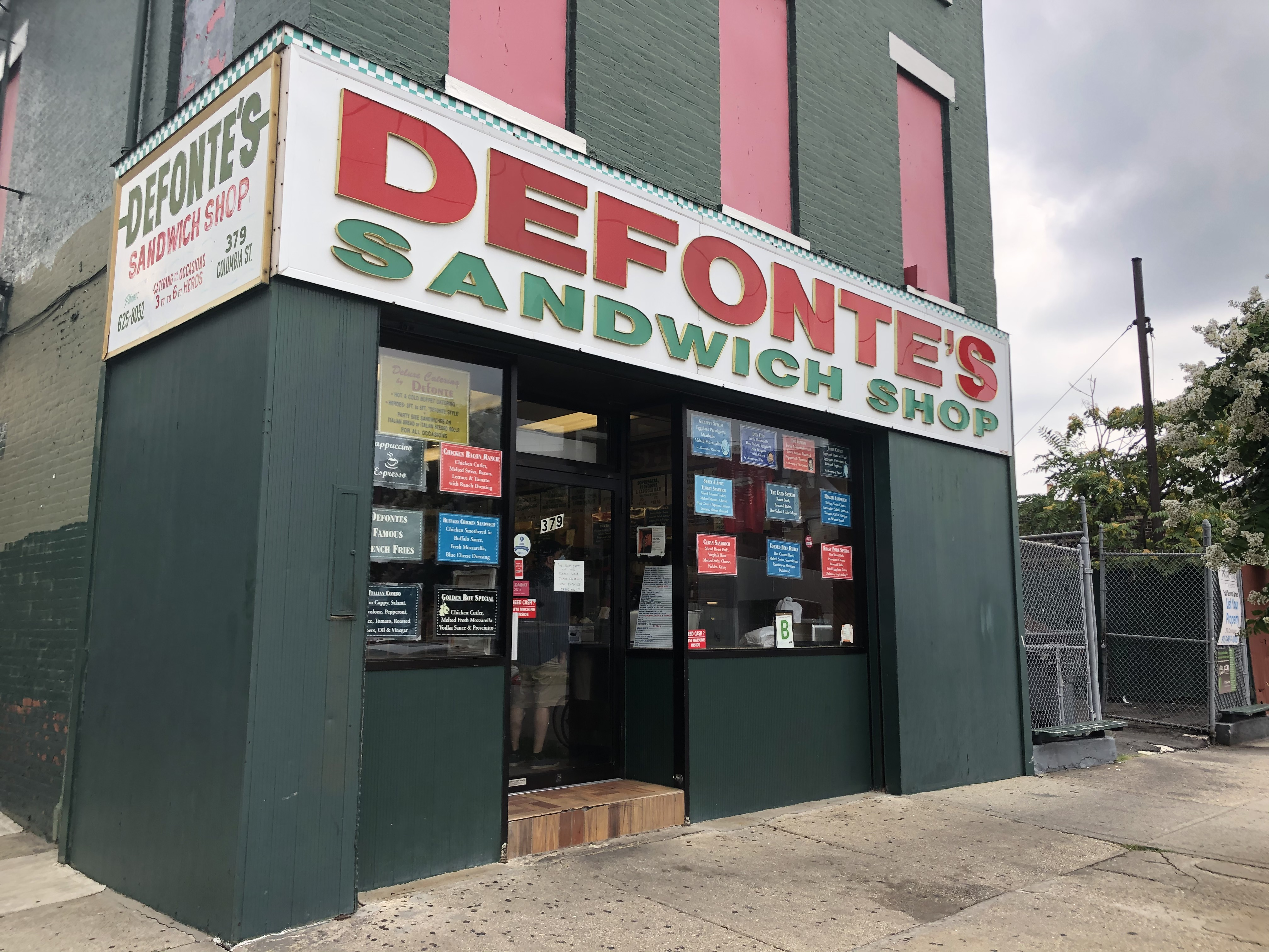 Defonte's Sandwich Shop, a popular shop located at the corners of Columbia Street and Luquer Street in the Red Hook neighborhood of Brooklyn.